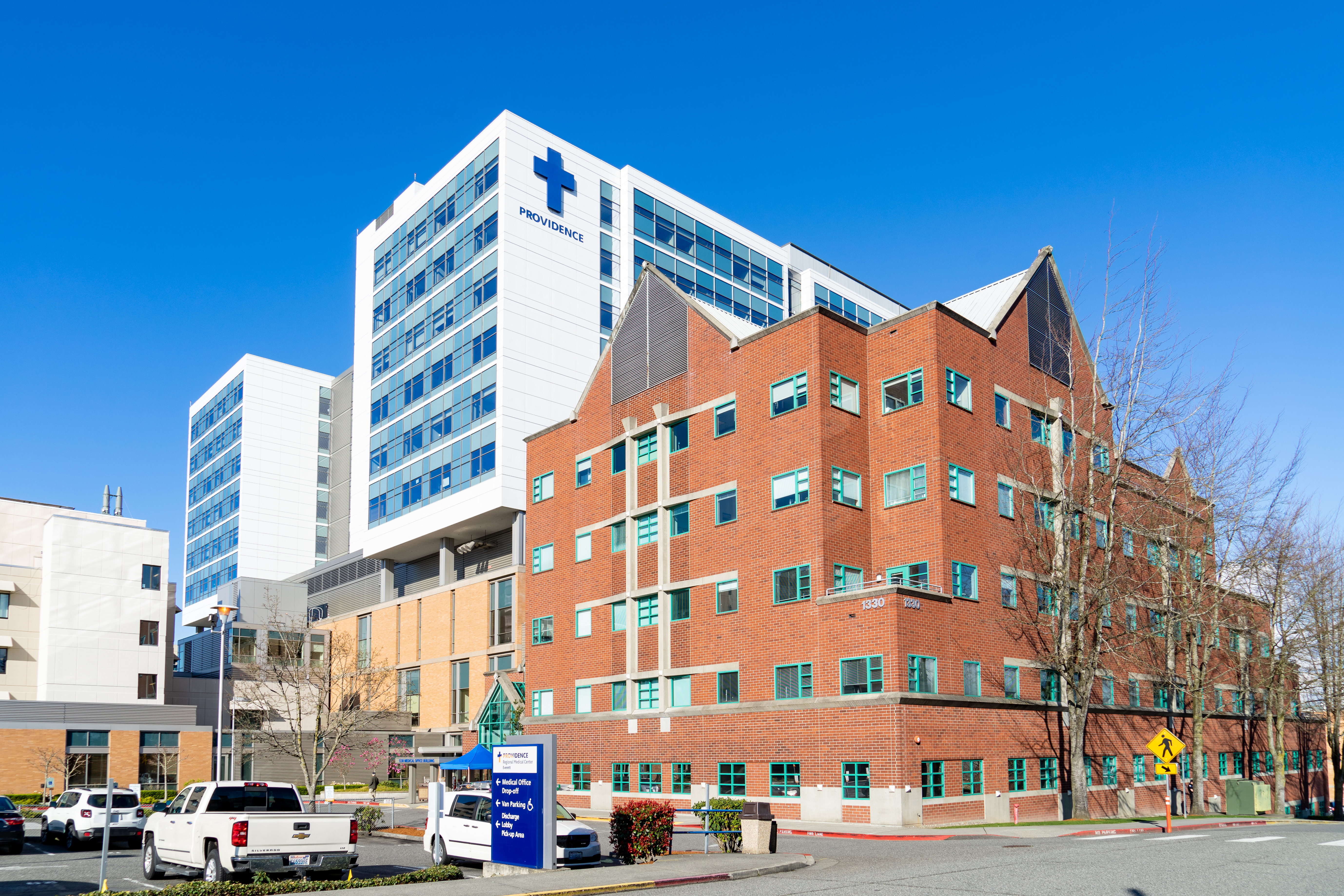 The Providence Regional Medical Center Everett in Everett, Washington. The original building is seen in the foreground and a newer medical tower (completed in 2011) is at the back.